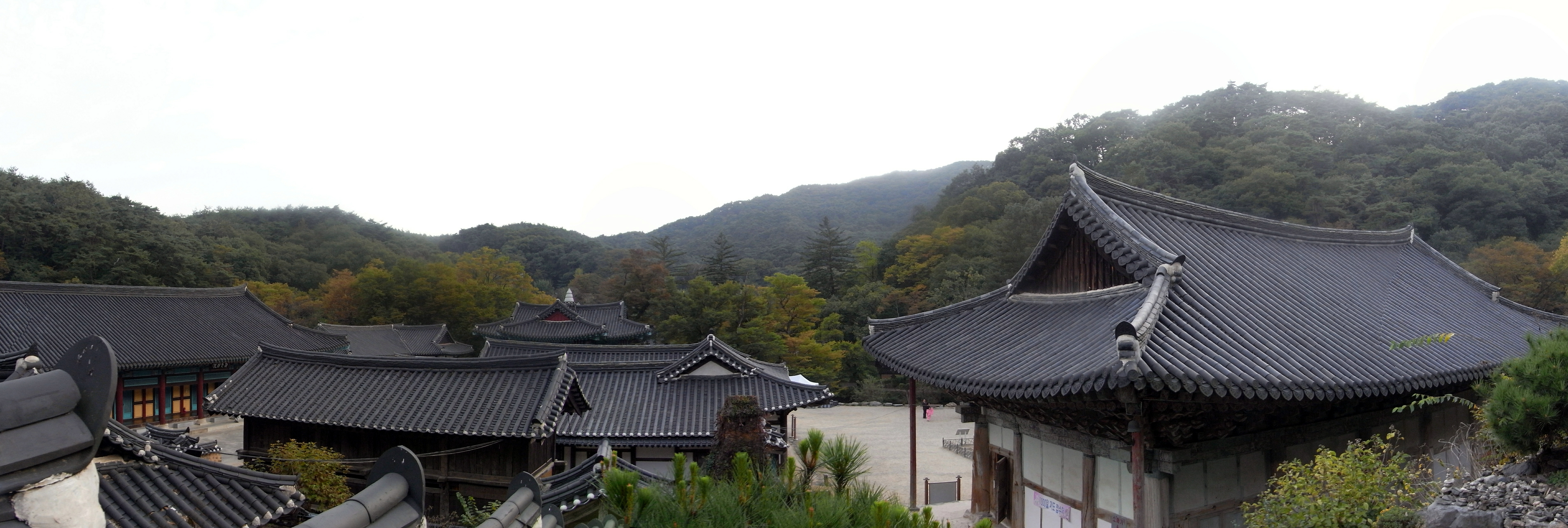 Panorama overlooking Magoksa